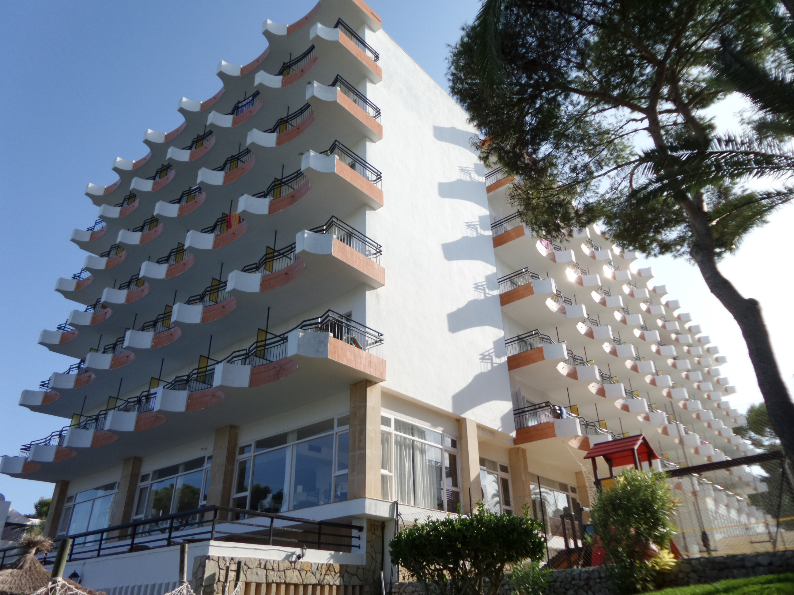 Hotel Cala Ferrera